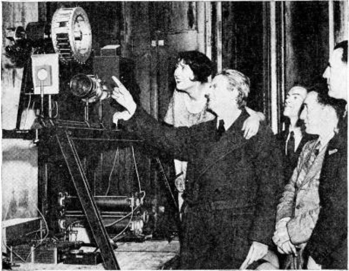 British television pioneer John Logie Baird showing his mechanical-scan television system in 1931.